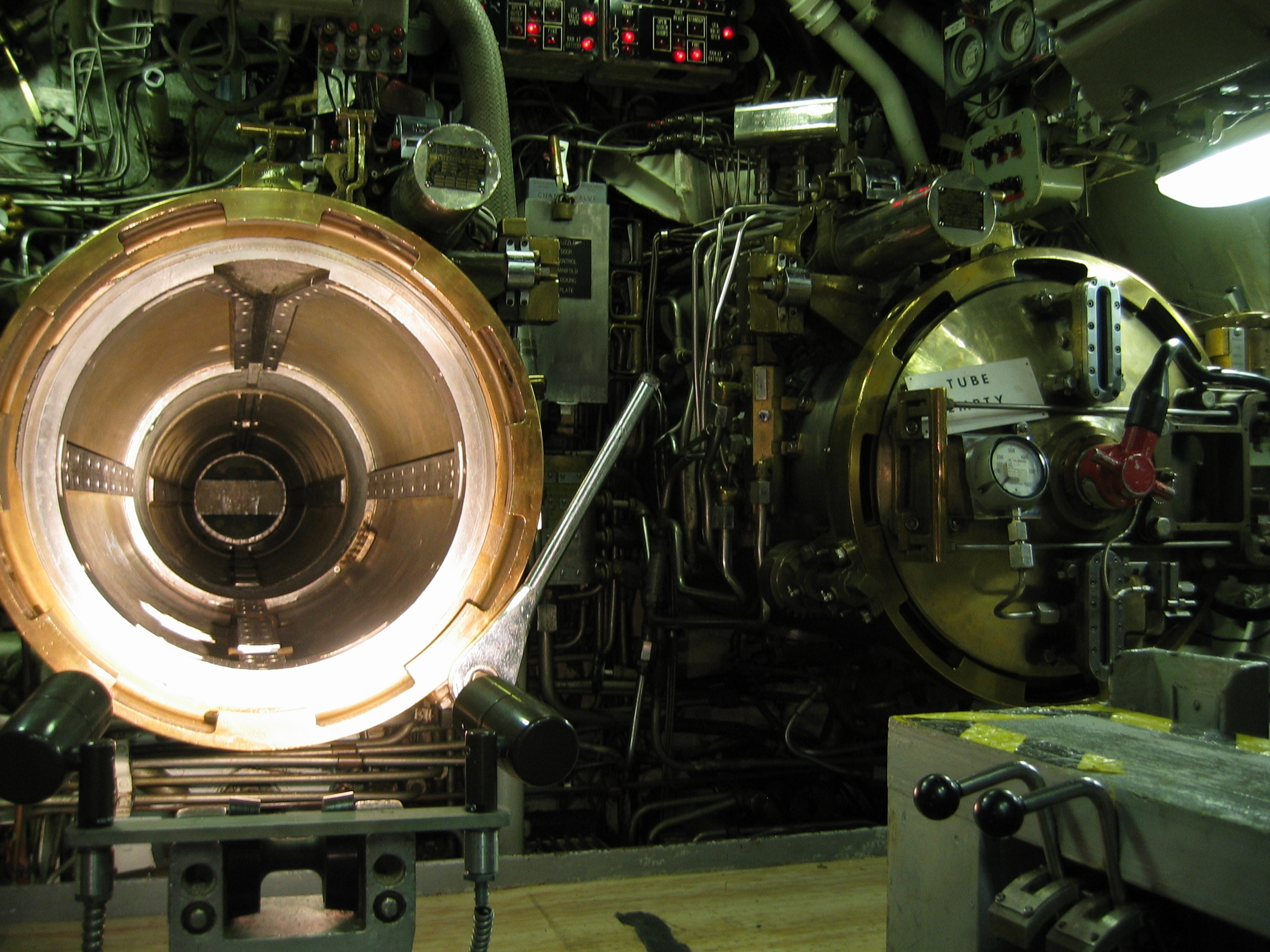 Torpedo tubes of submarine USS Blueback (SS-581), on display at OMSI, Portland